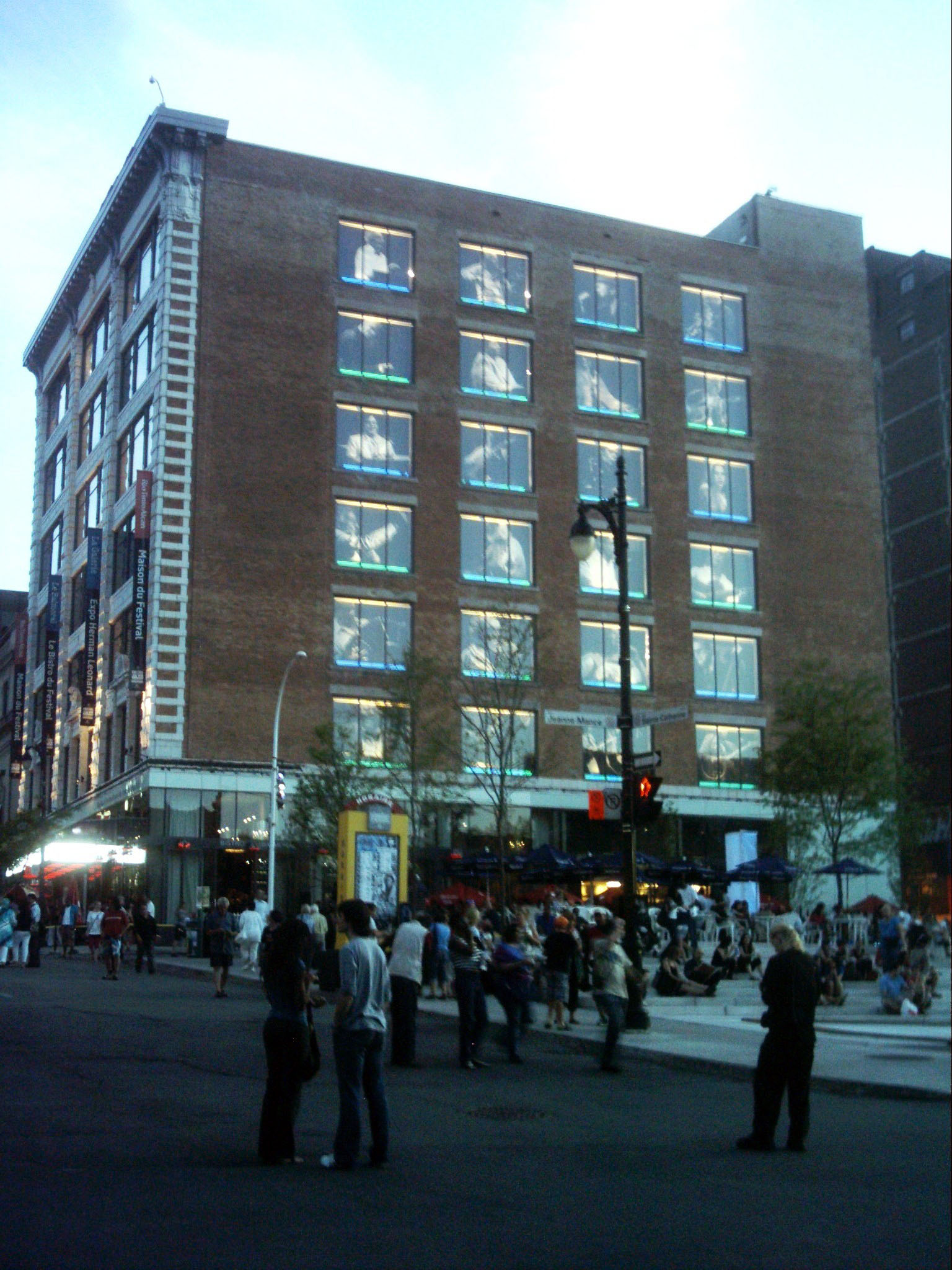 Maison du Festival de Jazz, on Sainte-Catherine street, in Montreal